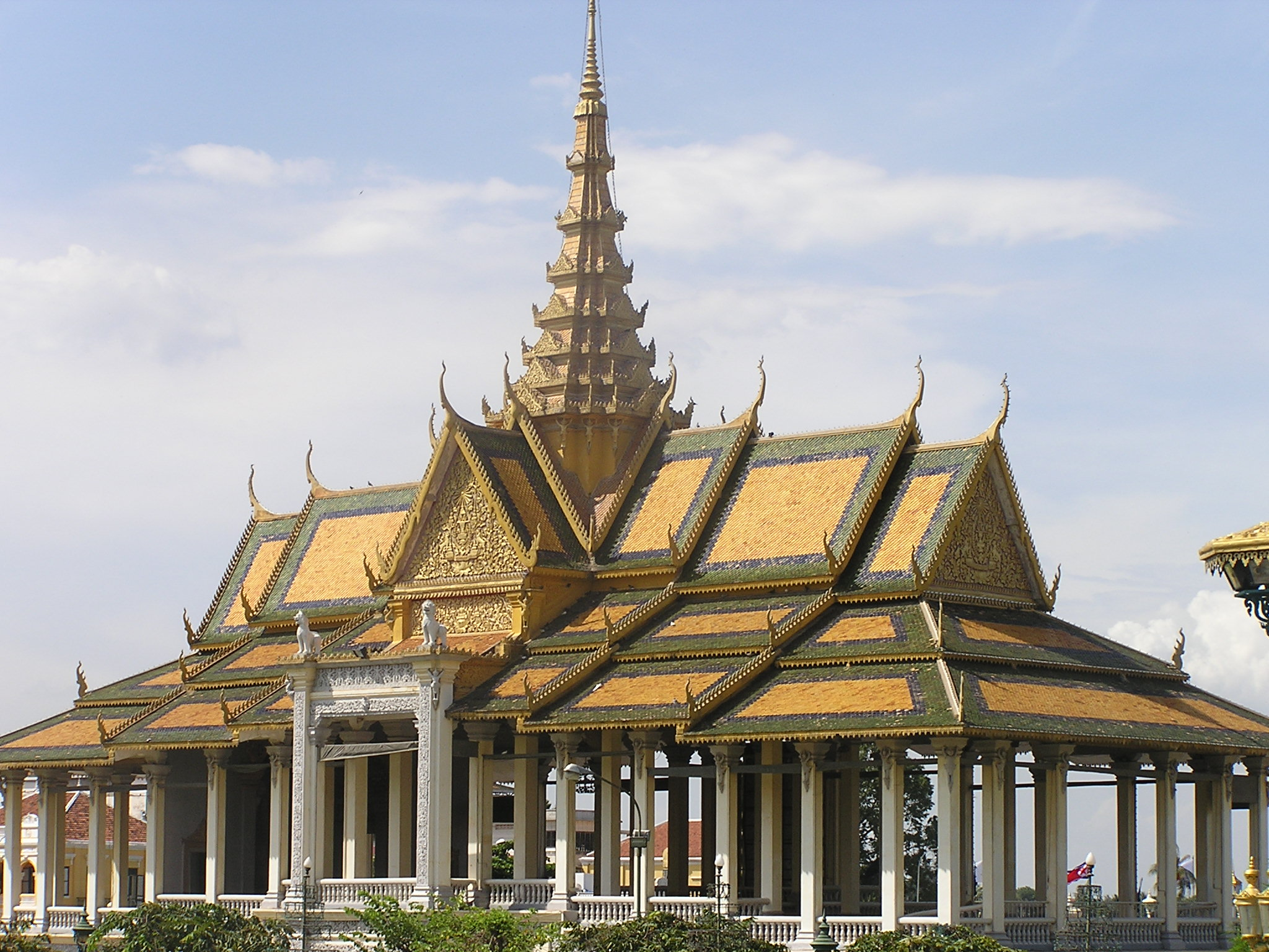 Chan Chhaya Pavilion